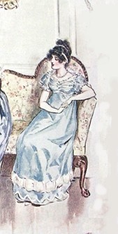 Detail of C. E. Brock illustration for the 1909 edition of Jane Austen last Novel Persuasion showing Anne Elliot on a sofa. (ch 8)